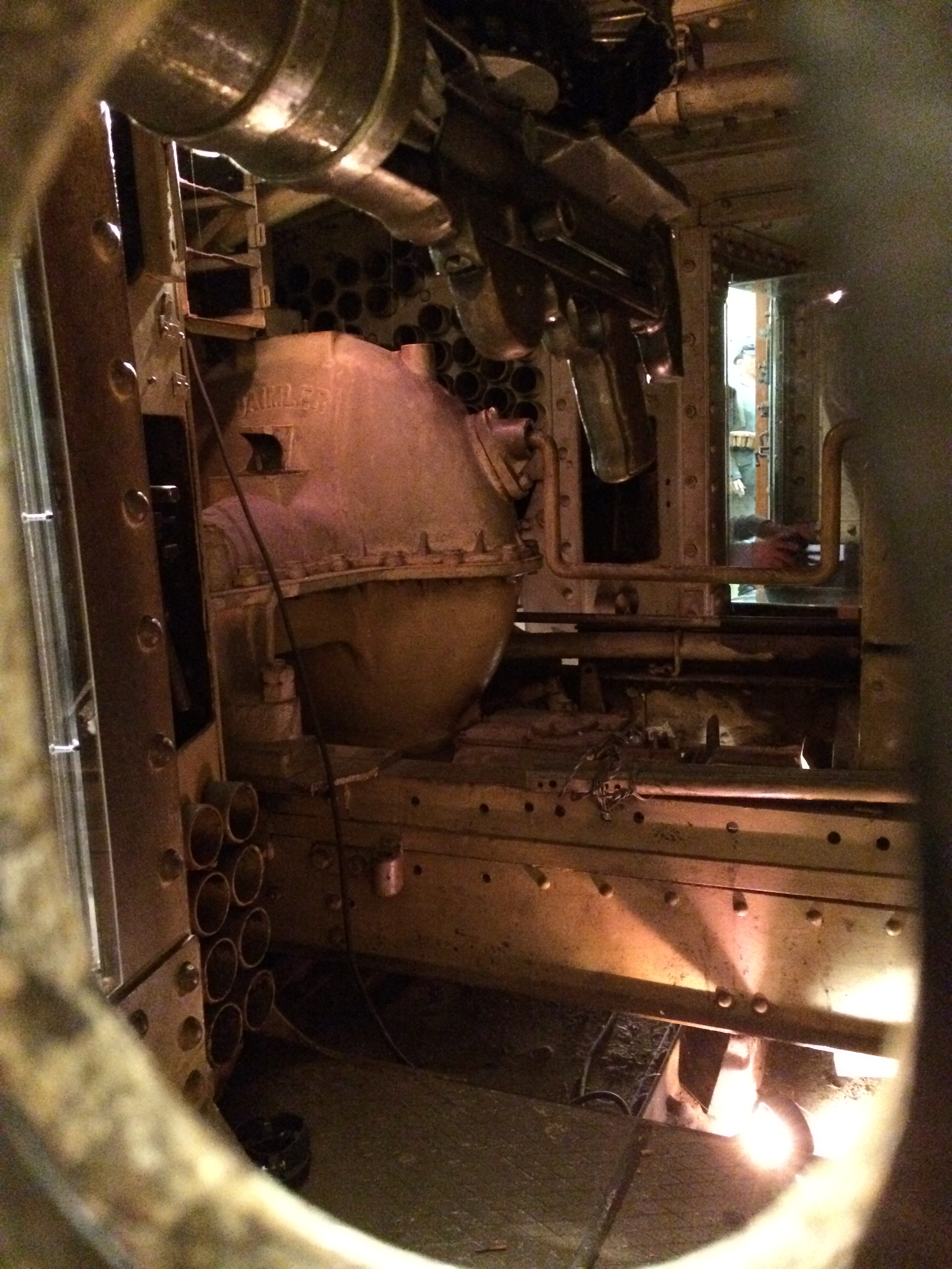 Inside view of a Mark IV Lodestar III tank of First World War. Photo taken through peephole. Royal Military Museum, Brussels, Belgium.